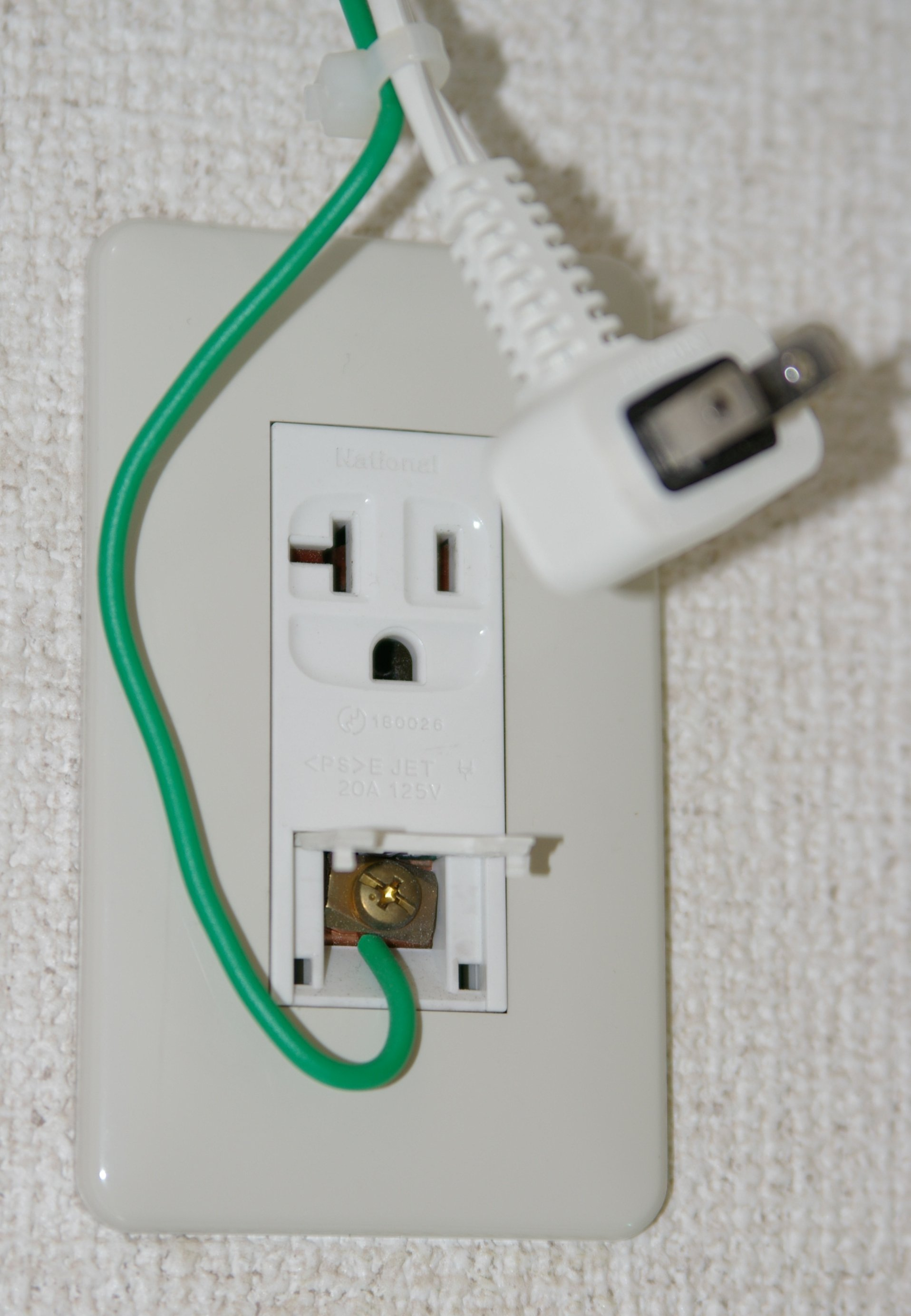 An outlet for a air conditioner, as seen in Japan